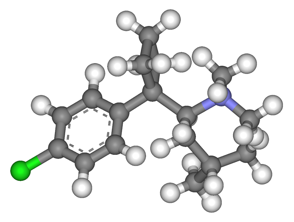 Ball-and-stick model of (R)-(+)-sibutramine. Created using ACD/ChemSketch 10.0, Accelrys DS Visualizer Pro 1.6 and GIMP.